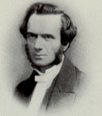 Brooke_Foss_Westcott